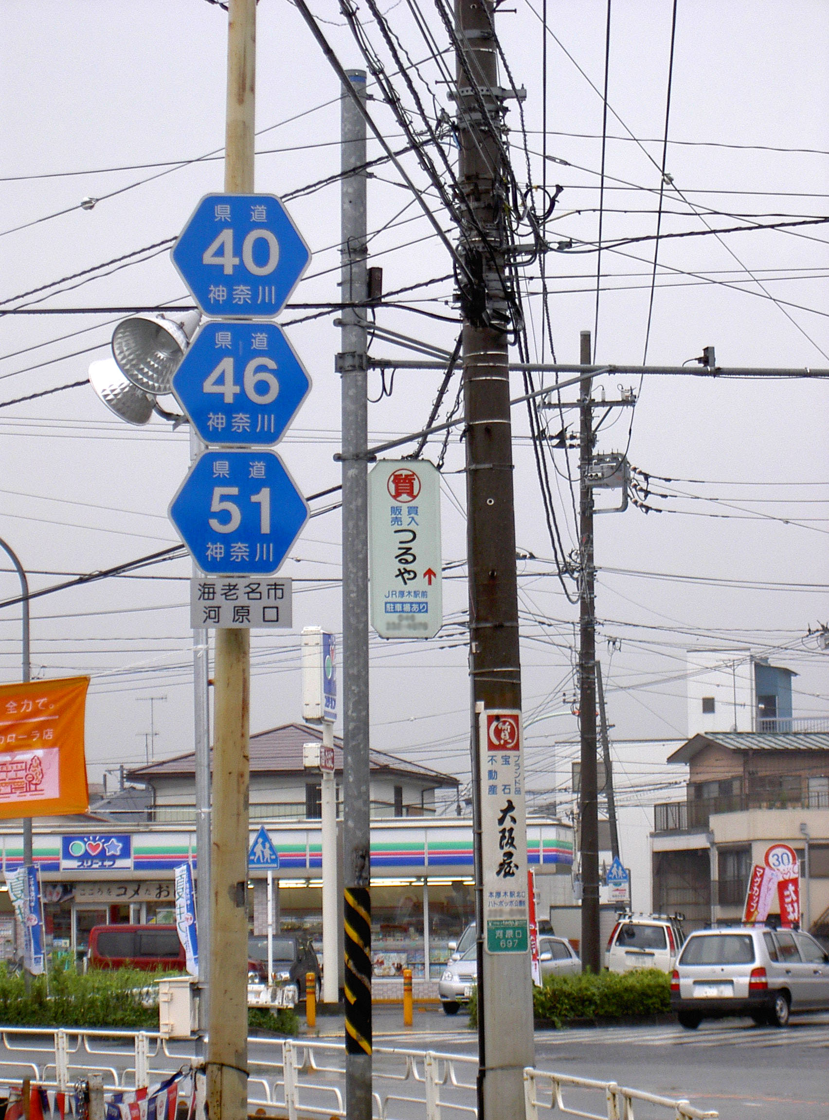 The sign plates of Kanagawa prefectural road route 40, 46 and 51 ja: 神奈川県道40号横浜厚木線、神奈川県道46号相模原茅ヶ崎線、神奈川県道51号町田厚木線の重複区間の標識